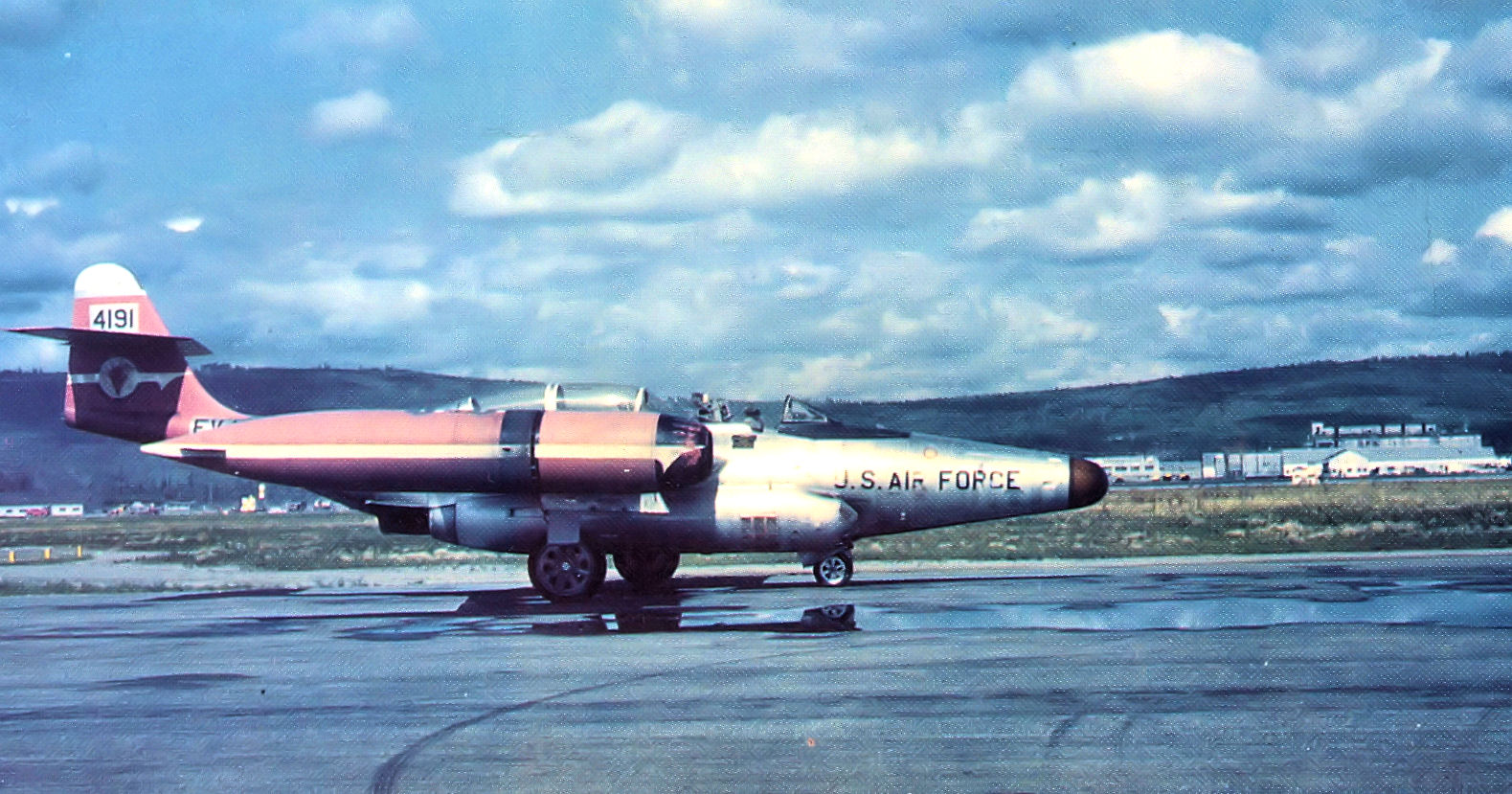 433d Fighter-Interceptor Squadron F-89D-75-NO Scorpion 54-191 at Ladd AFB, Alaska, 1956